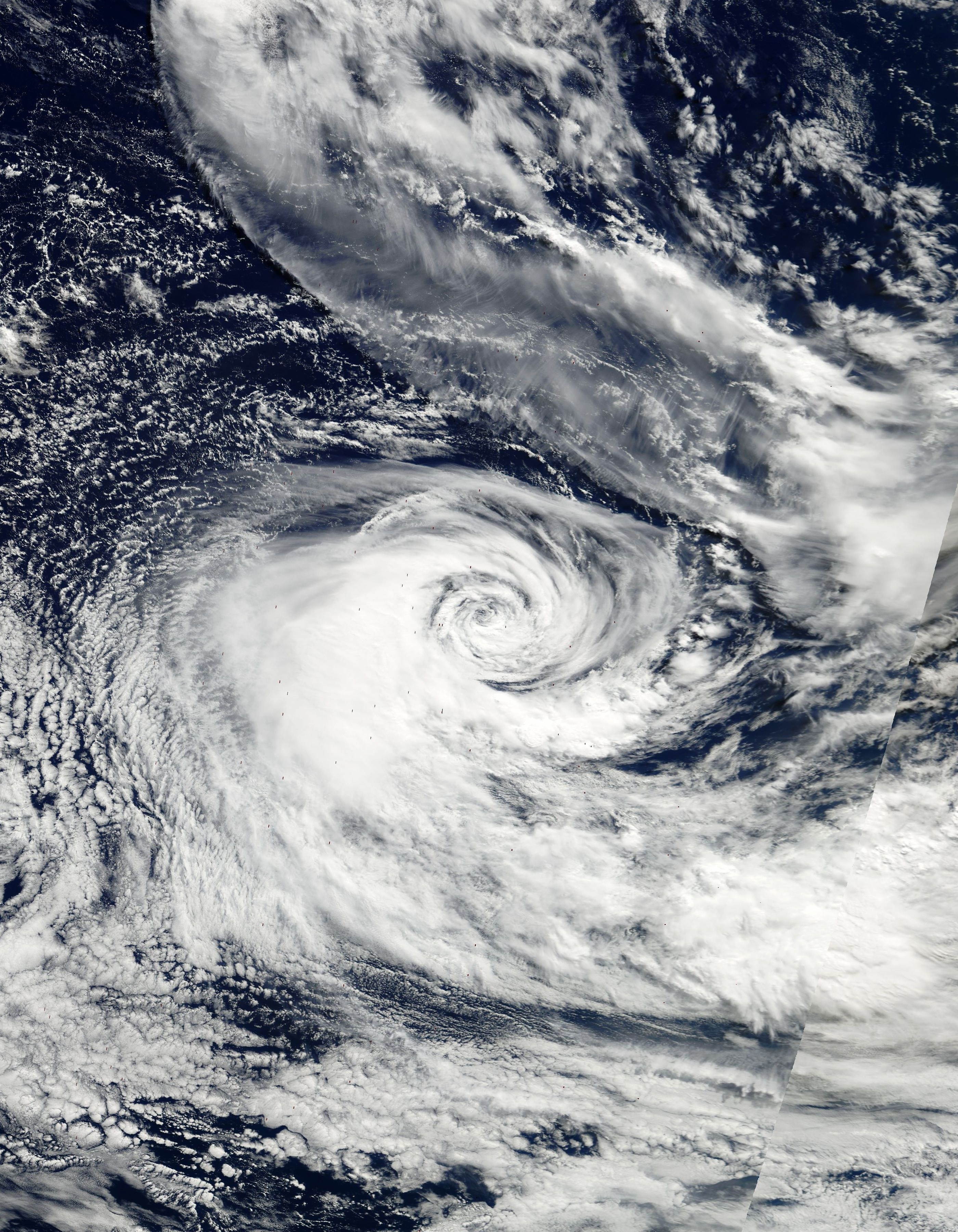 A possible tropical cyclone in the South Pacific on April 03, 2002